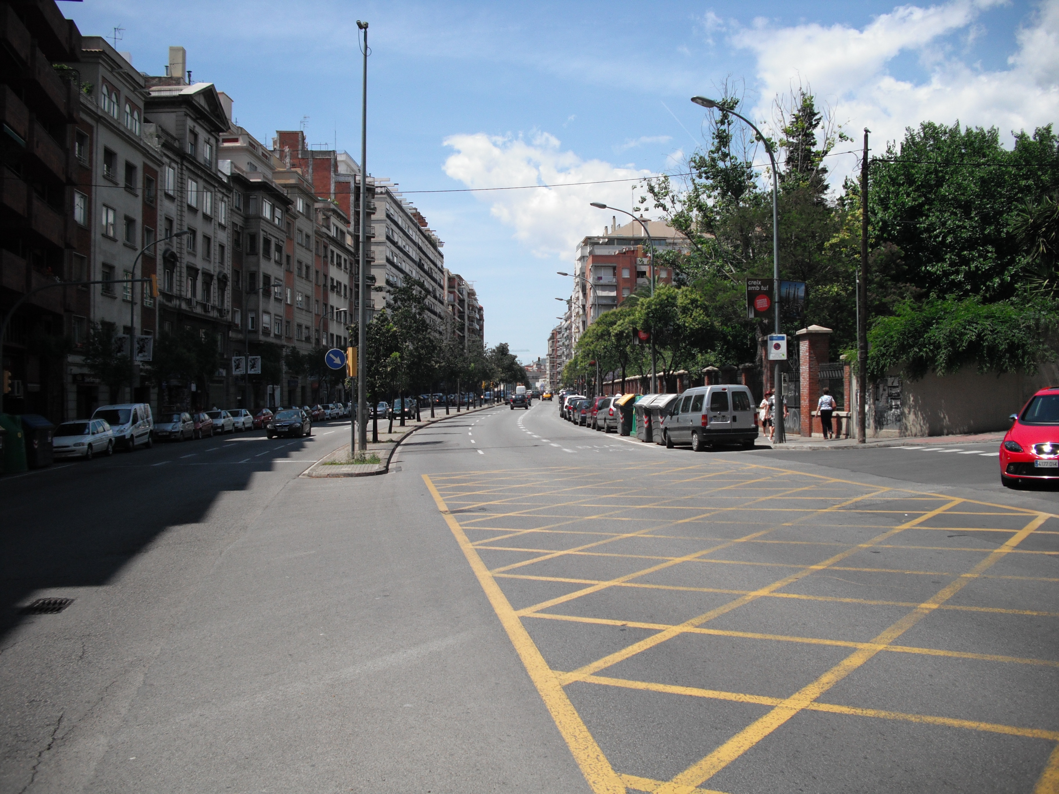 Travassera de Dalt (street) in Barcelona.